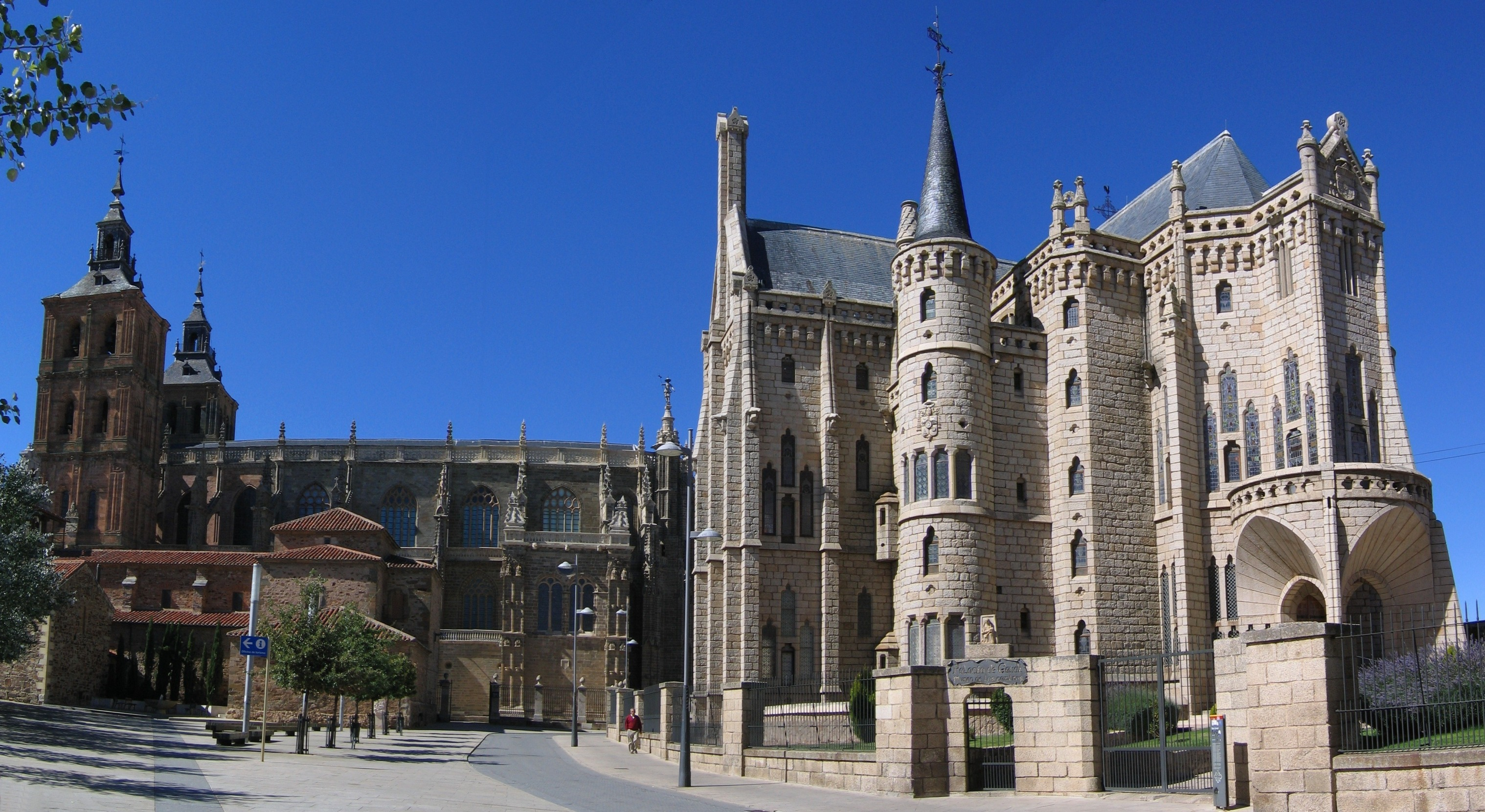 Astorga, Spain, Cathedral (on the left) and the palace of the bishop (on the right) built by A. Gaudi, picture taken by myself, 2005 Astorga, Spanien, links die Kathedrale, rechts der Bischofspalast von A. Gaudi, selbst fotografiert in 2005